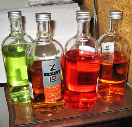 Flavoured vodka bottles ("ZE Vodka")